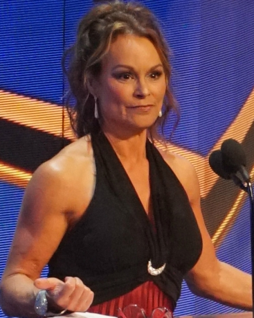 Ivory at the 2018 WWE Hall of Fame ceremony in April 2018